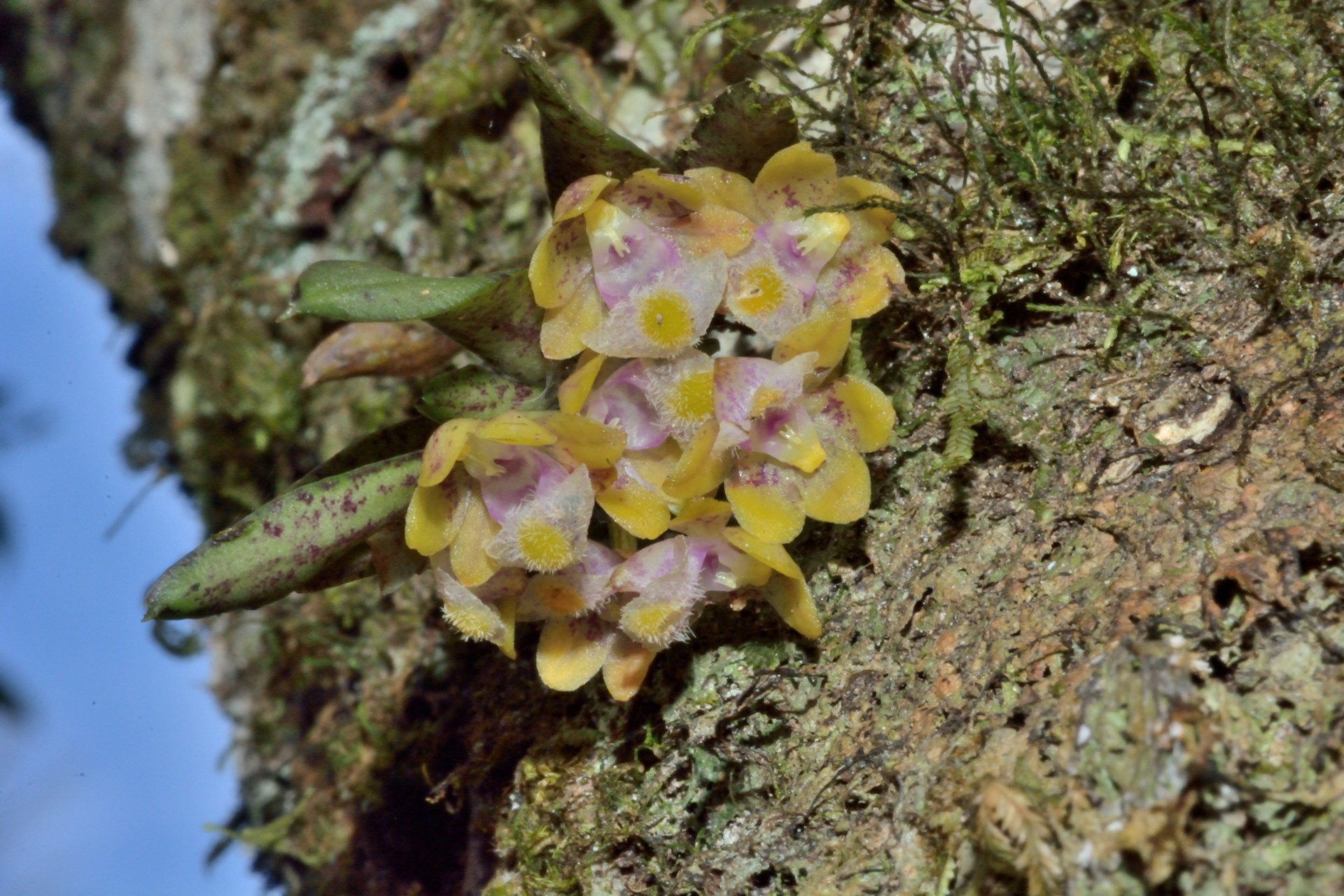 Gastrochilus matsudae flowers